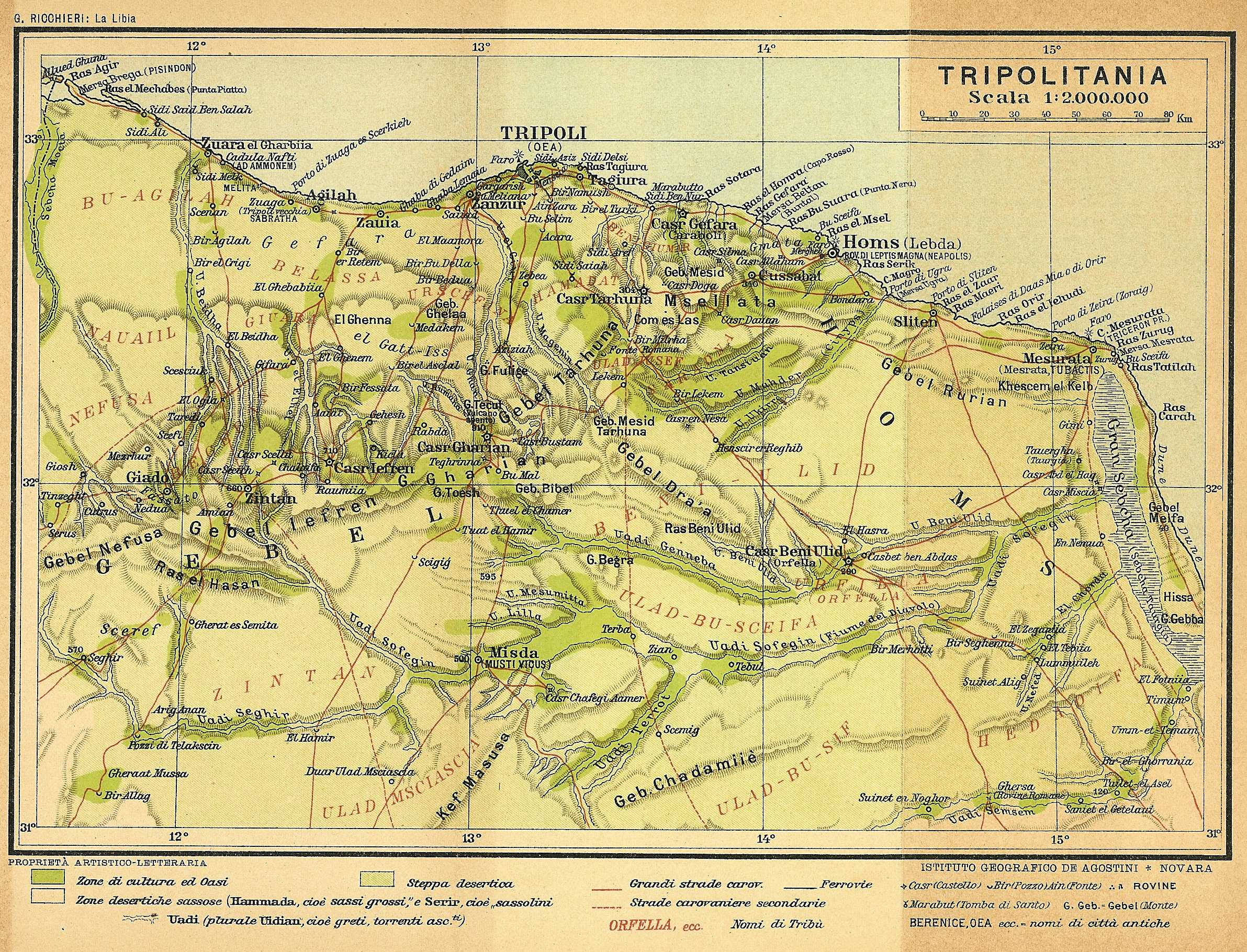 A 1913 Italian map of Italian Tripolitania, in Italian Libya.